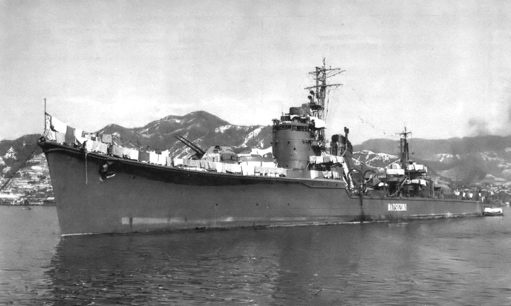 Imperial Japanese Navy destroyer Natsuzuki (Akizuki-class) in late 1945, after the war. The second artillery turret is removed.